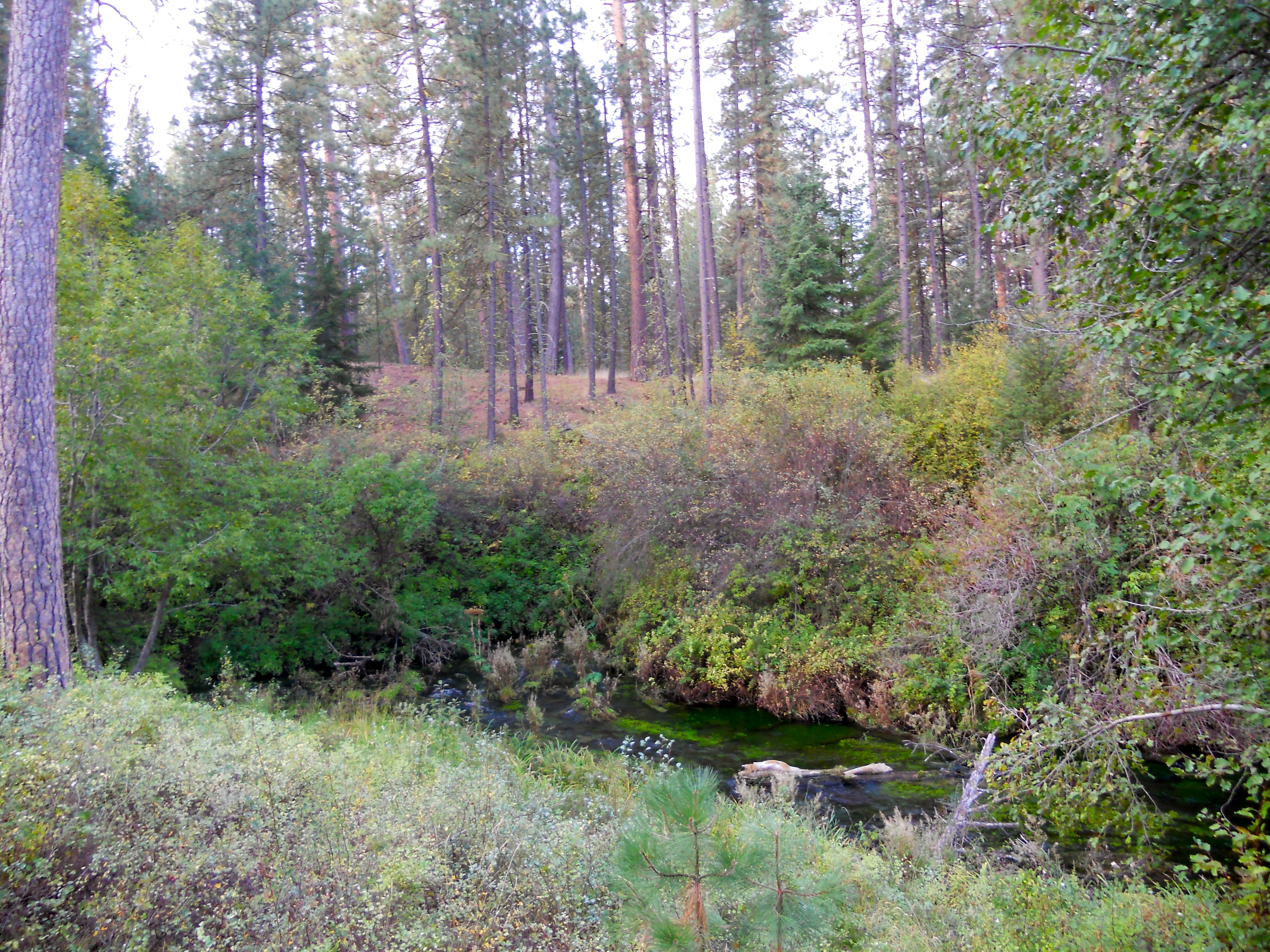 The Metolius River at Metolius Springs, where the river suddenly emerges from the ground near Black Butte Ranch in Jefferson County, Oregon